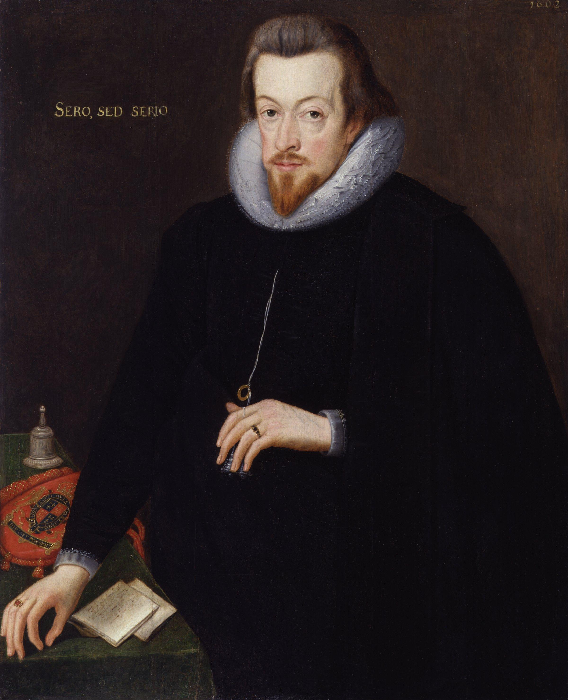 Robert Cecil was born around 1563 as the son of William Cecil, who was queen Elizabeth’s primary advisor. Robert followed in his fathers footsteps. He became Secretary of State under Elizabeth and stayed on under her successor James I. He also became Lord Privy Seal and Lord High Treasurer. He died in 1612.